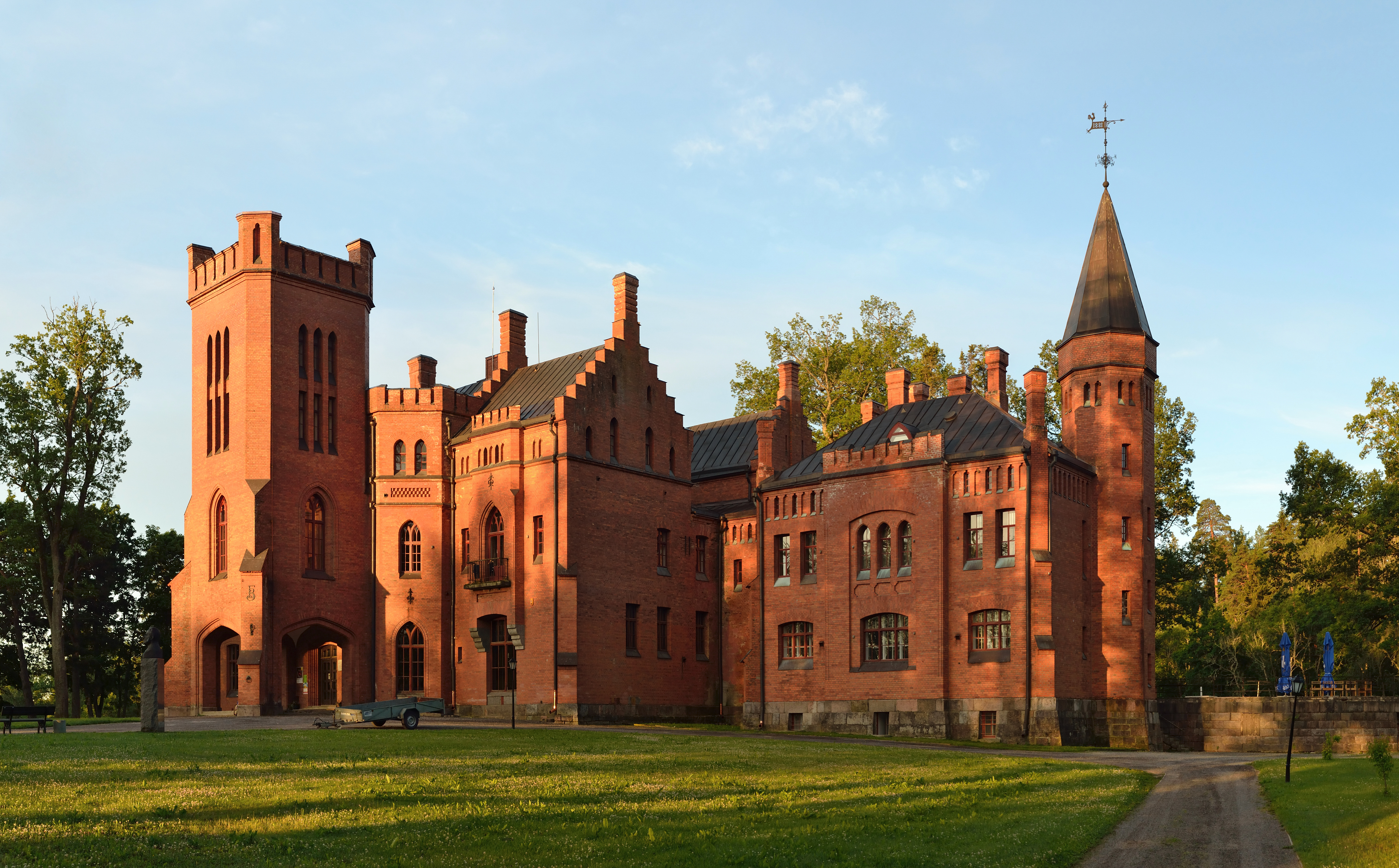 Sangaste manor main building